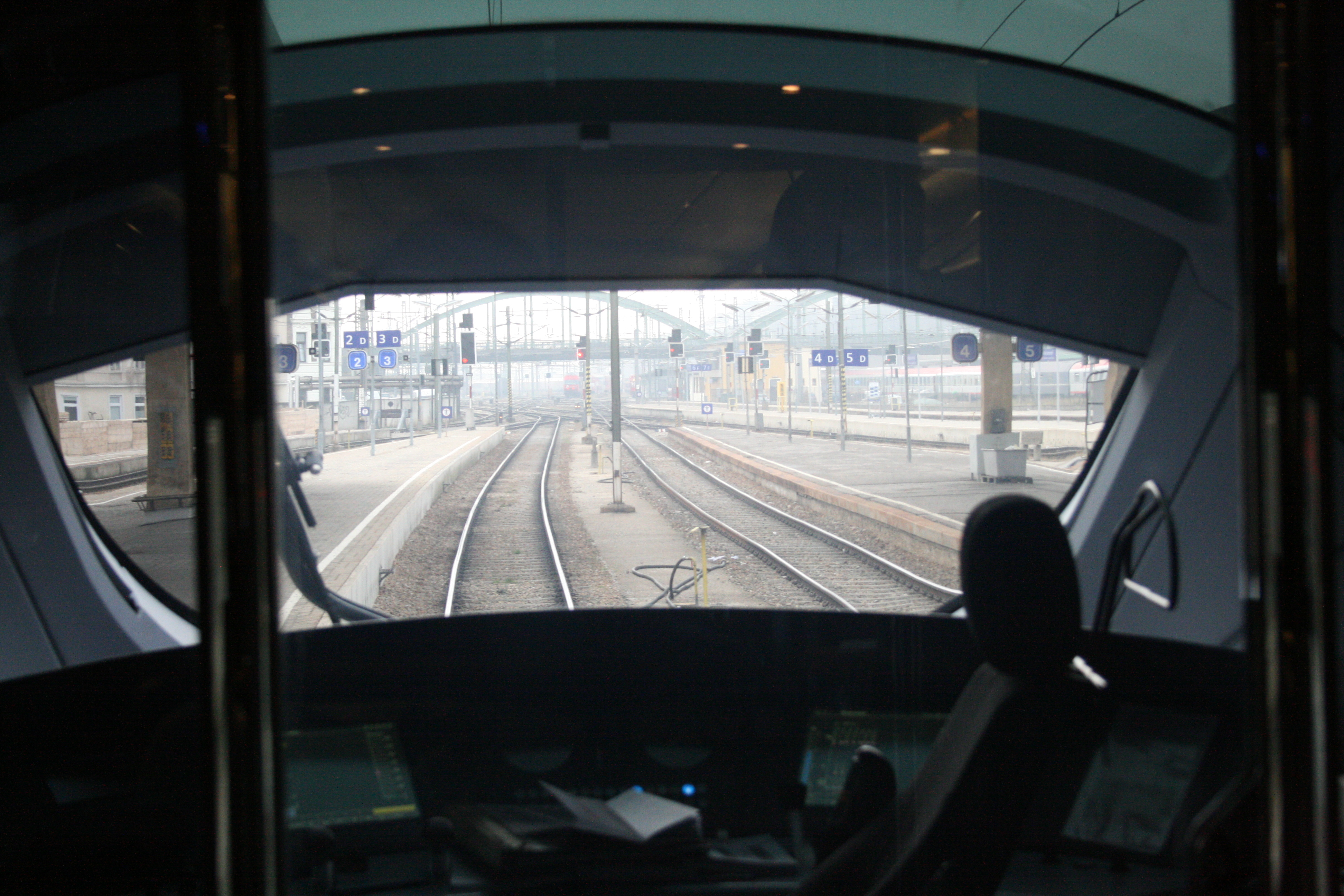 An ICE T